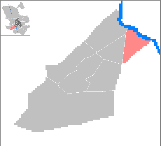 Comillas quarter in Madrid